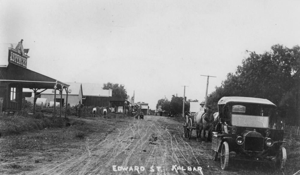 View of Edward Street, Kalbar in the 1920s. Edward Street before the fire. Town shows a few shops including the premises of J. Spencer. A horse and cart is following a car.